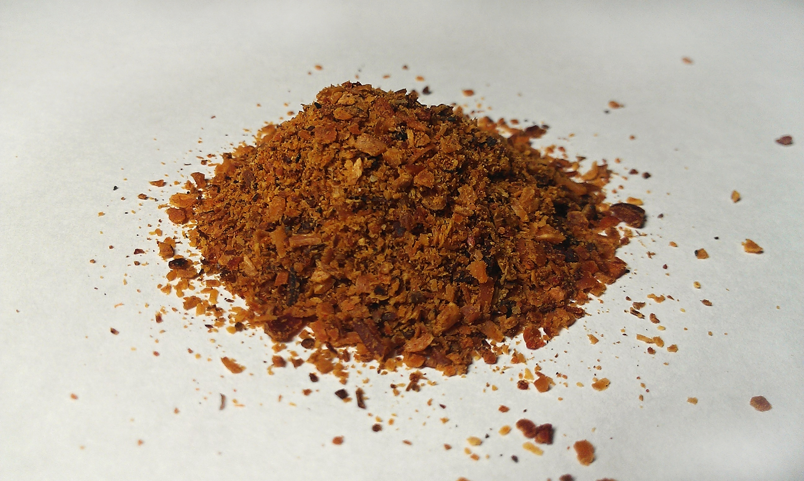 Spice of Nutmeg (Myristica fragrans)